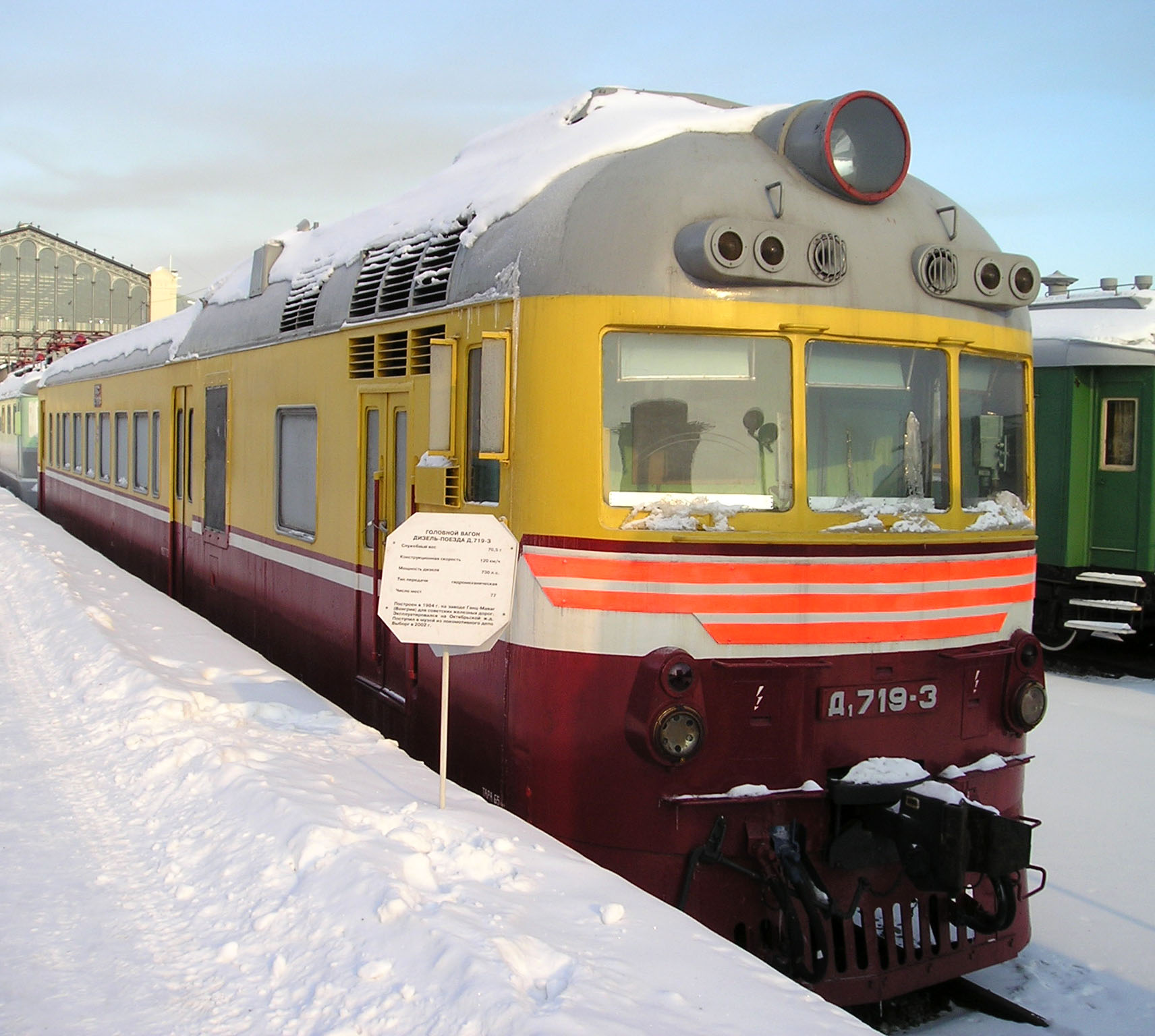 Diesel multiple unit D1 produced in Hungary (Ganz-MAVAG) for USSR.